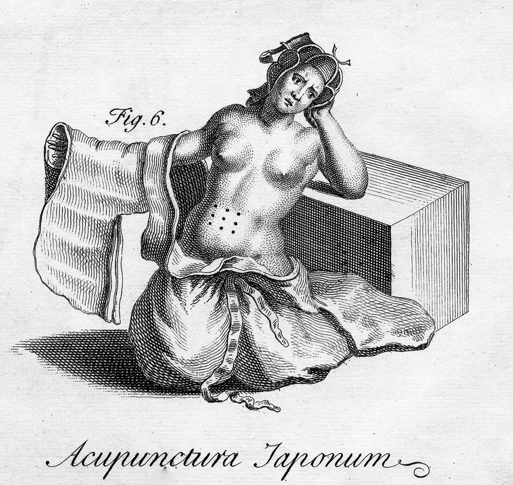 Japanese abdominal acupuncture in Engelbert Kaempfer's History of Japan (1727) (private collection)